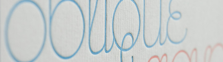 oblique 2